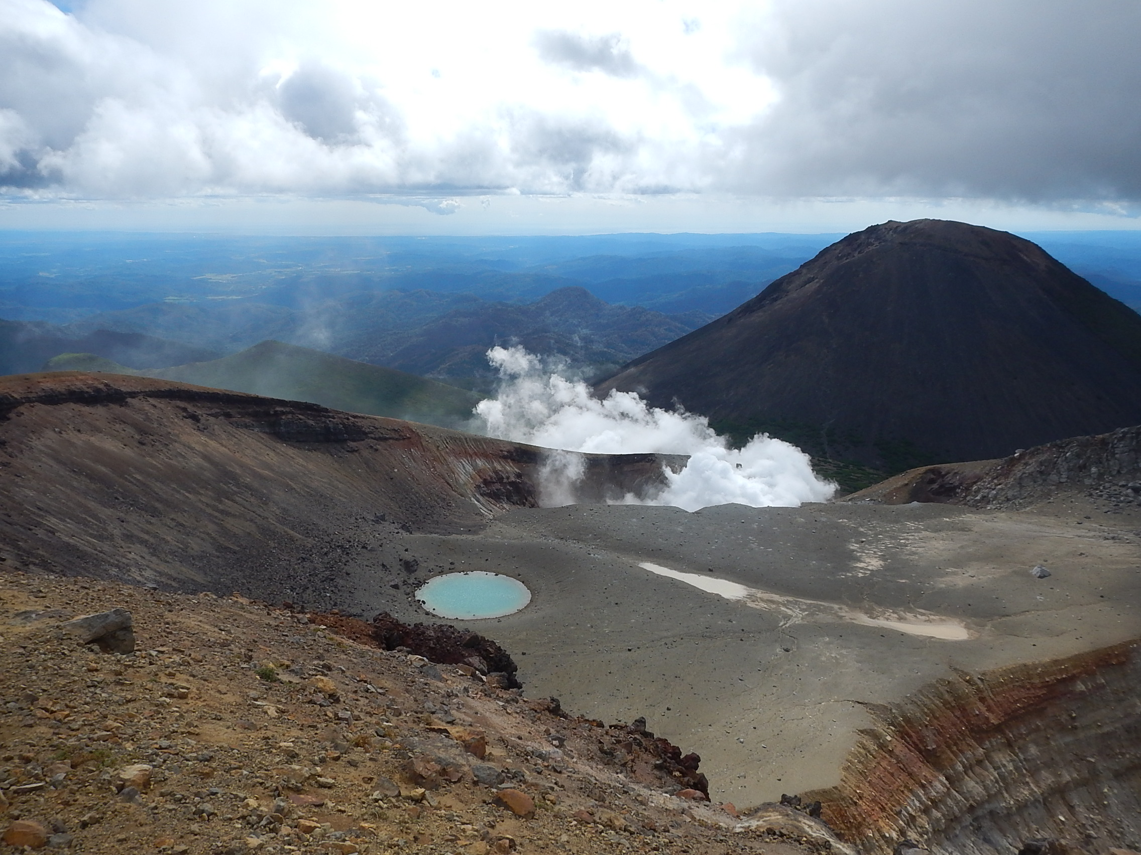 Looking the south from the top of Mount Meakan. Ponmachineshiri Crater in the foreground. Aonuma pond on the left. Mout Akanfuji in top right.